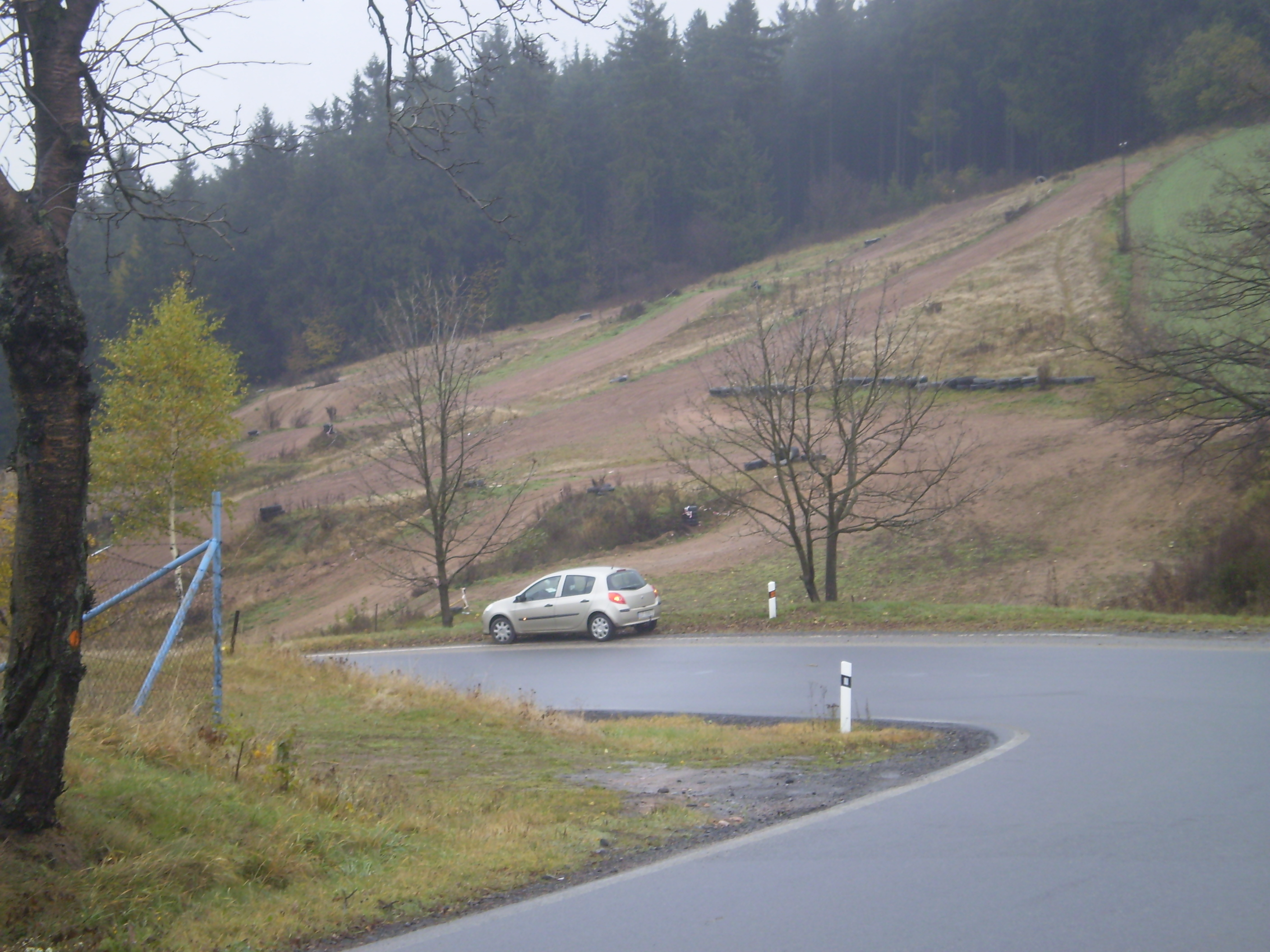 Písečné, Žďár nad Sázavou District, Czechia. Motocross track.